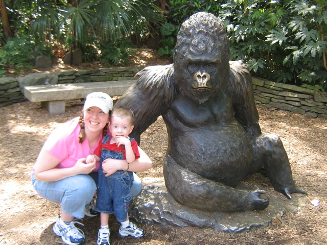 Photograph of a mother and child posing with the Willie B. statue at Zoo Atlanta in Atlanta, Georgia.